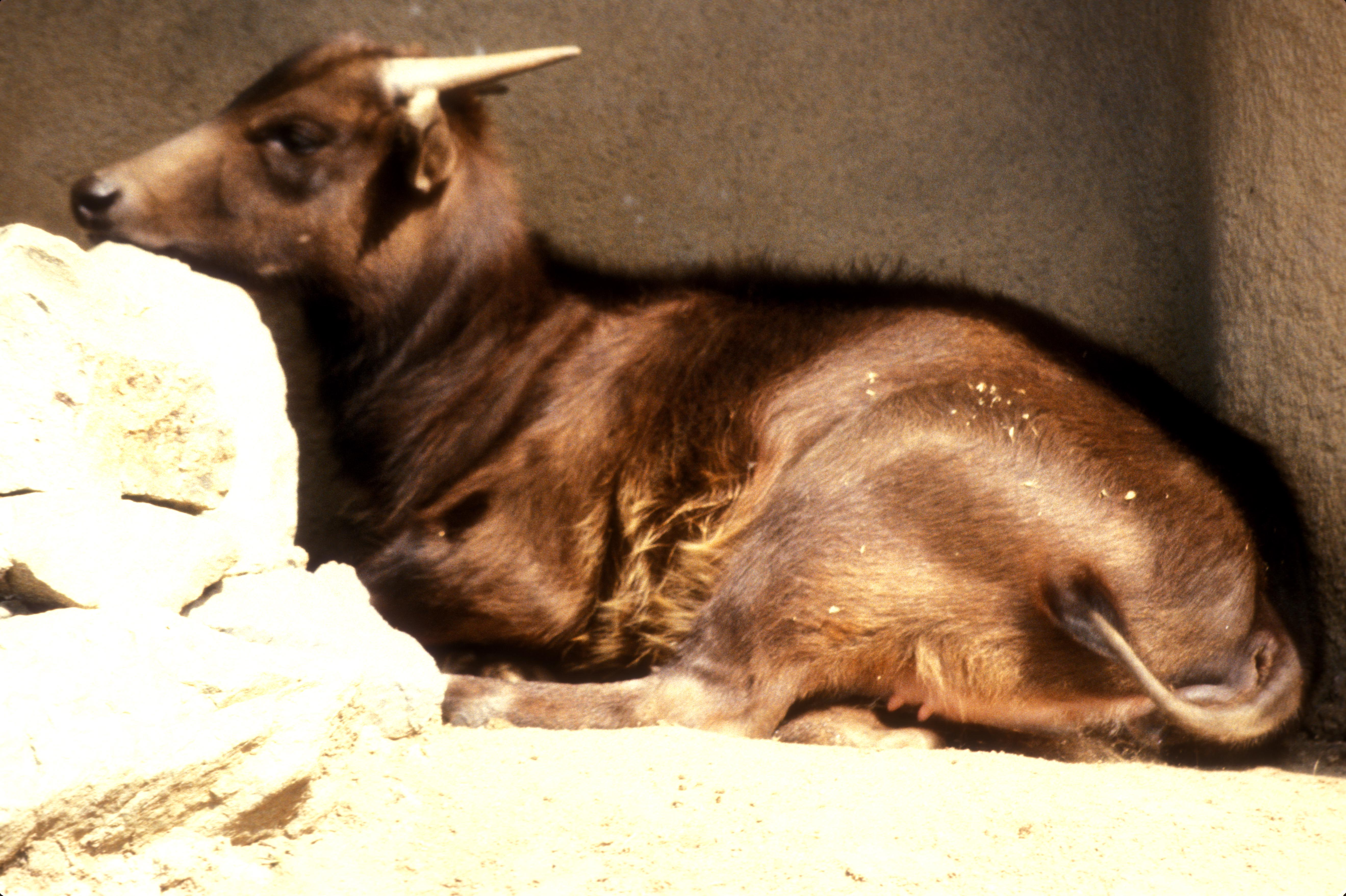 MOUNTAIN INOA - RARE ENDANGERED SPECIES FROM INDONESIA